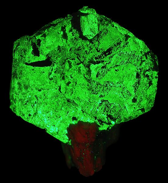 Willemite, Calcite, Franklinite Locality: Franklin, Franklin Mining District, Sussex County, New Jersey, USA (Locality at ) Size: 5.3 x 4.4 x 3.8 cm. A huge, sharp, classic willemite crystal aesthetically perched on a sliver of calcite with embedded franklinite crystals from Franklin. The moderately lustrous, rust-brown crystal has textbook, hexagonal form. Amazing green fluorescence on the willemite and orange for the calcite.